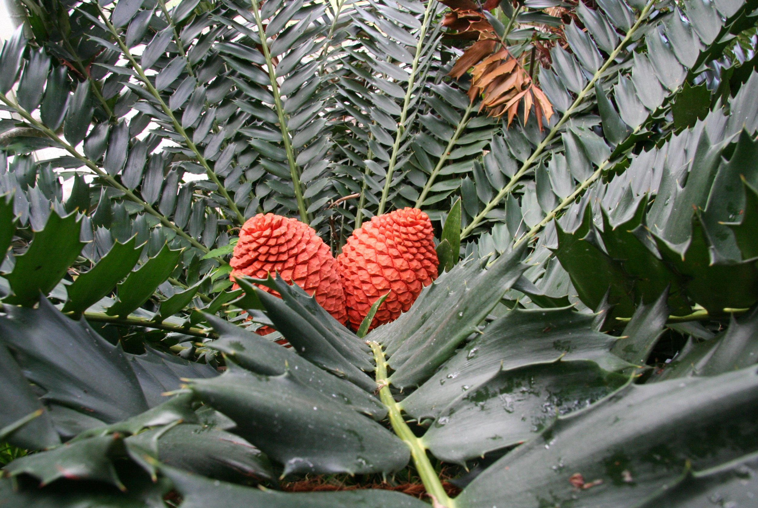 A female Maputaland cycad with two cones